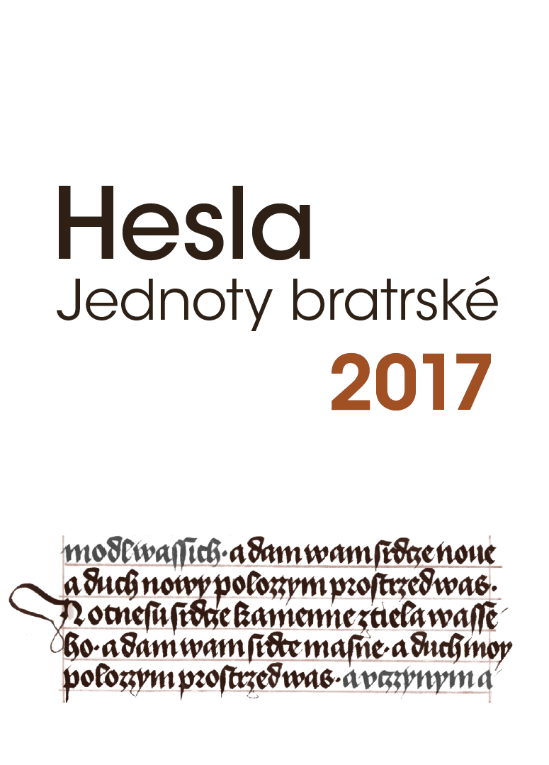 Hesla Jednoty bratrské 2017 – cover; low resolution 775x1079